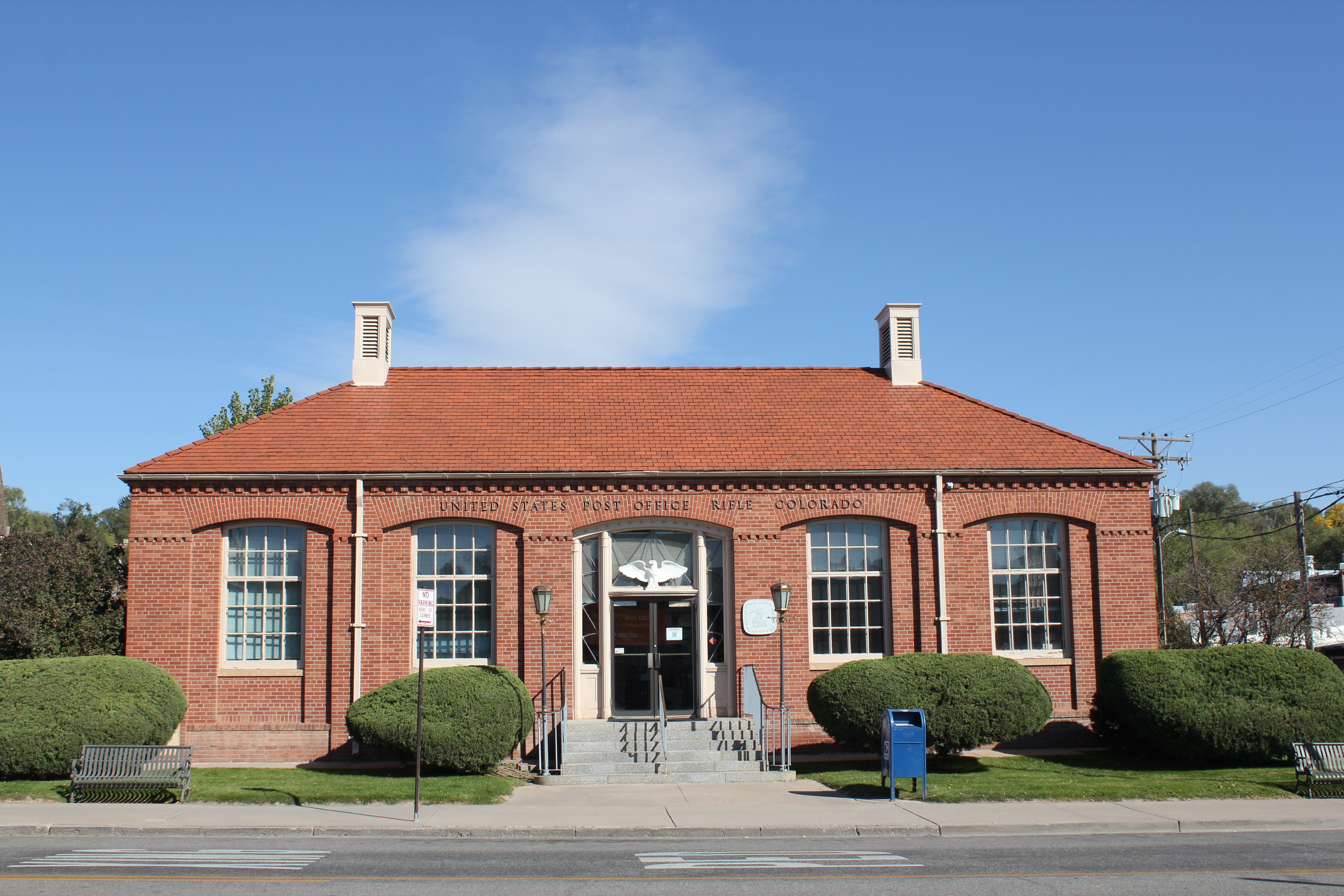 The United States Post Office in Rifle, Colorado. Located at the intersection of Railroad Avenue and 4th Street, the property is listed on the National Register of Historic Places.